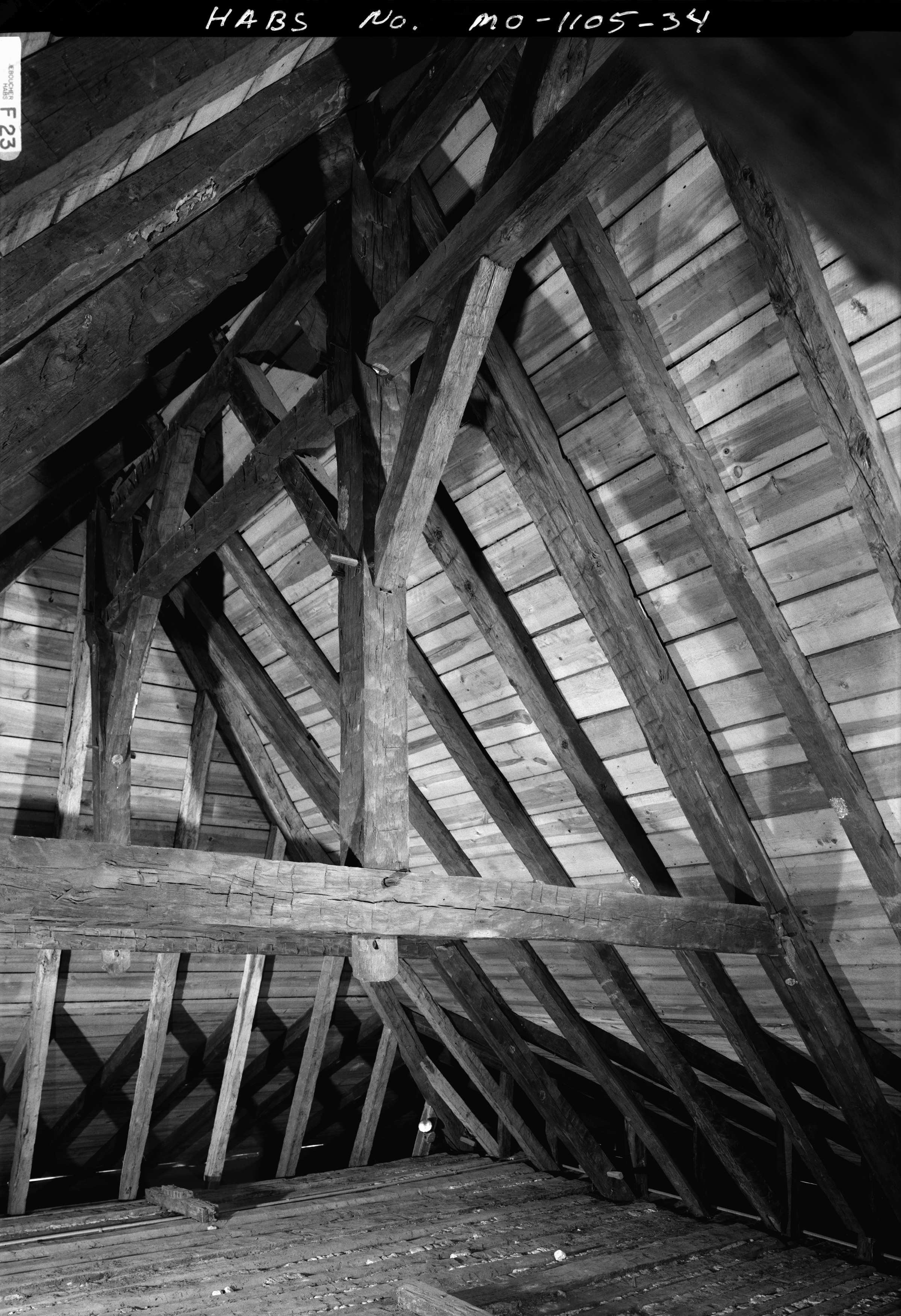 A photograph showing the Norman Truss in the Bolduc House. The truss is made from hewn oak. The Bolduc House was built in 1740 by Peter Bolduc, a very prominent merchant in Ste. Geneviève, Missouri. The house, along with the rest of the village, was moved to its present location on higher ground in 1785 to escape flooding from the Mississippi River. Image courtesy of Historic American Buildings Survey—HABS.